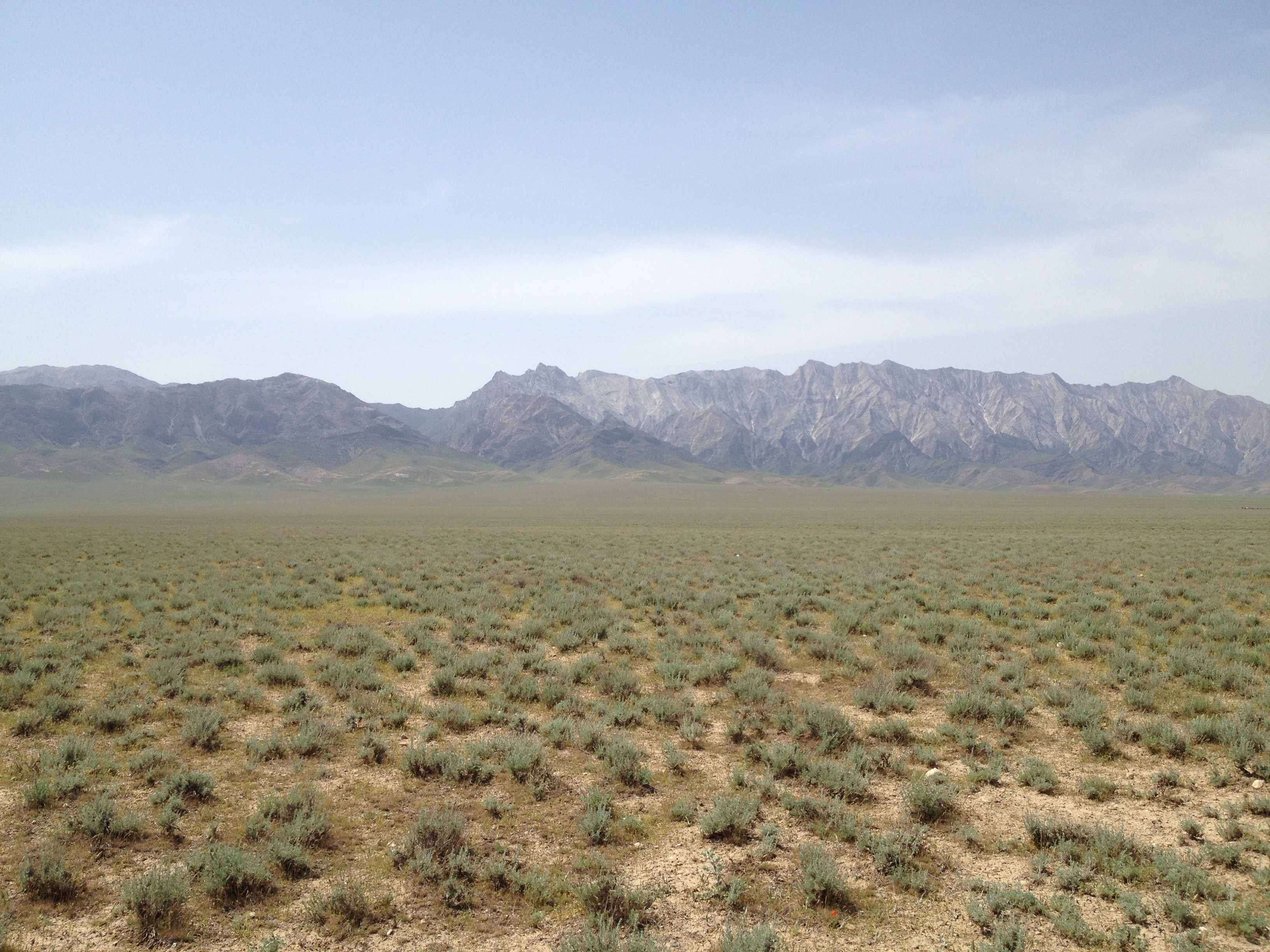 Ak-tau mountains (north slope)